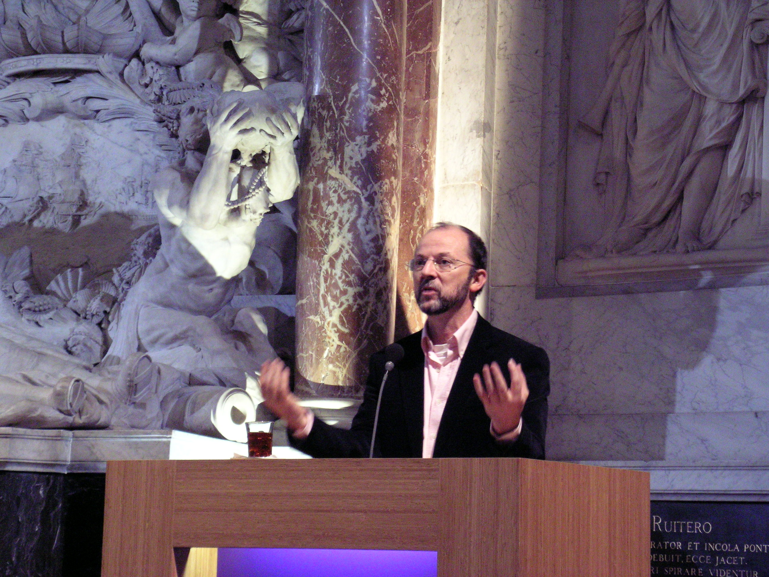 Paul Schnabel, director of the Sociaal Cultureel Plan Bureau (a Dutch government institute) at the manifestation of Hans Dijkstal's Een Land Een Samenleving at 2006-11-11 in the Nieuwe Kerk (New Church) in Amsterdam. Original filename: Dscn6457.jpg